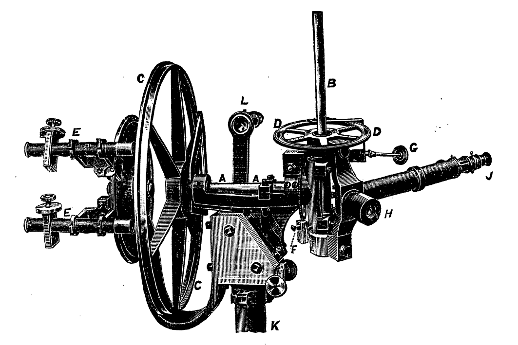 A drawing of the parallactic instrument built and used by Dutch astronomer Jacobus Kapteyn, used to analyze glass plate photographs of stars seen from the Southern hemisphere (South Africa, photos made by David Gill). Constructed around 1886, used to gather data for the Cape Photographic Durchmusterung.